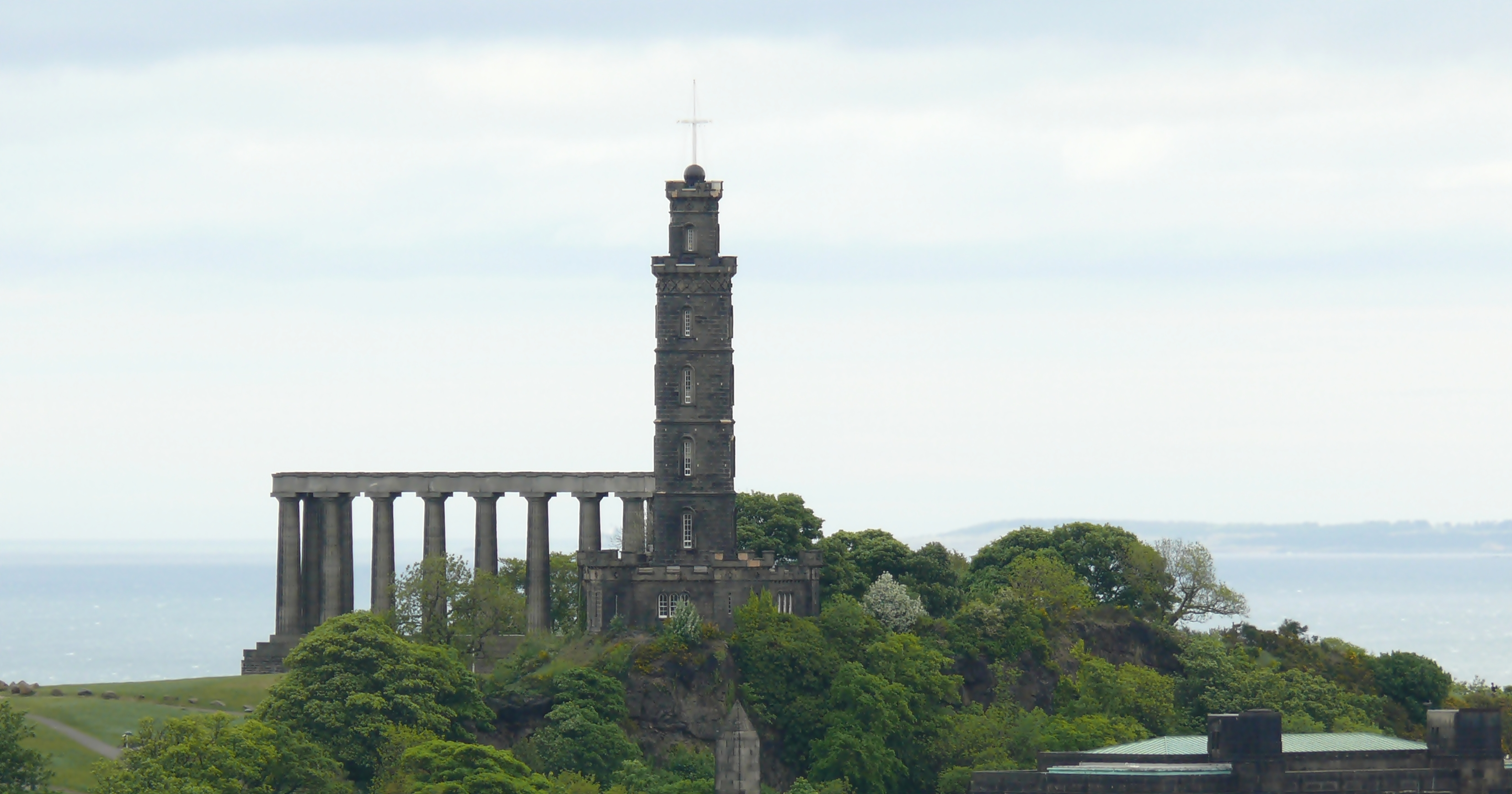 Calton Hill as seen from Edinburgh Castle, with the National Monument, colloquially known as Edinburgh's Disgrace, and Nelson Monument .